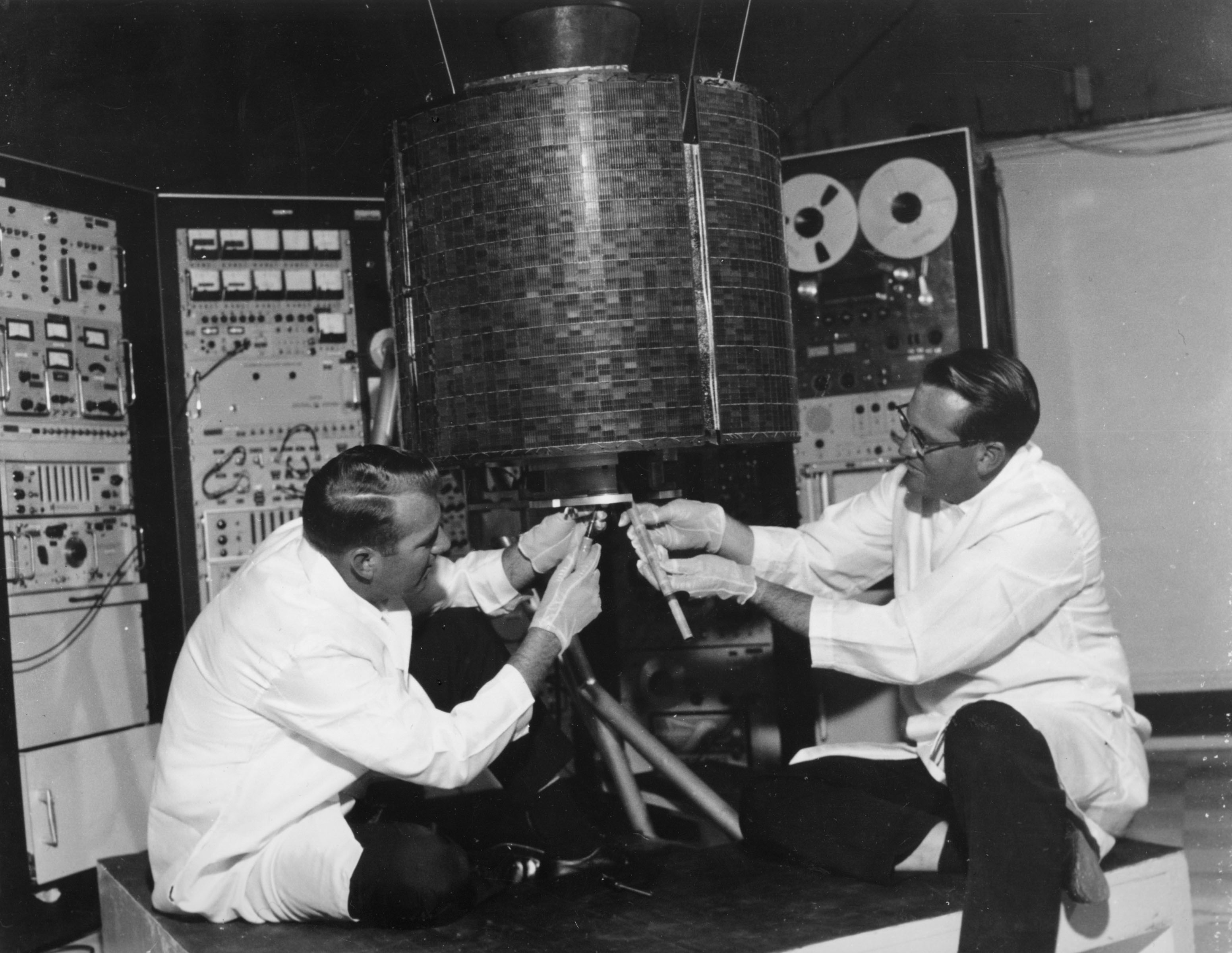 Engineers Stanley R. Peterson (left) and Ray Bowerman (right), checkout the Early Bird, the world's first communication satellite. NASA launched the satellite built by Hughes Aircraft Corporation on April 6, 1965 at 6:48pm E.S.T. from Complex 17a at Cape Kennedy, Florida. Early Bird was built for the Communications Satellite Corporation and weighed about 85 pounds after being placed in a synchronous orbit of 22,300 miles above the earth. It was positioned over the Atlantic to provide 240 two-way telephone channels or 2-way television between Europe and North America. The outer surface of Early Bird was covered with 6,000 silicon-coated solar cells, which absorbed the sun's rays to provide power to the satellite for its intricate transmitting and receiving equipment.